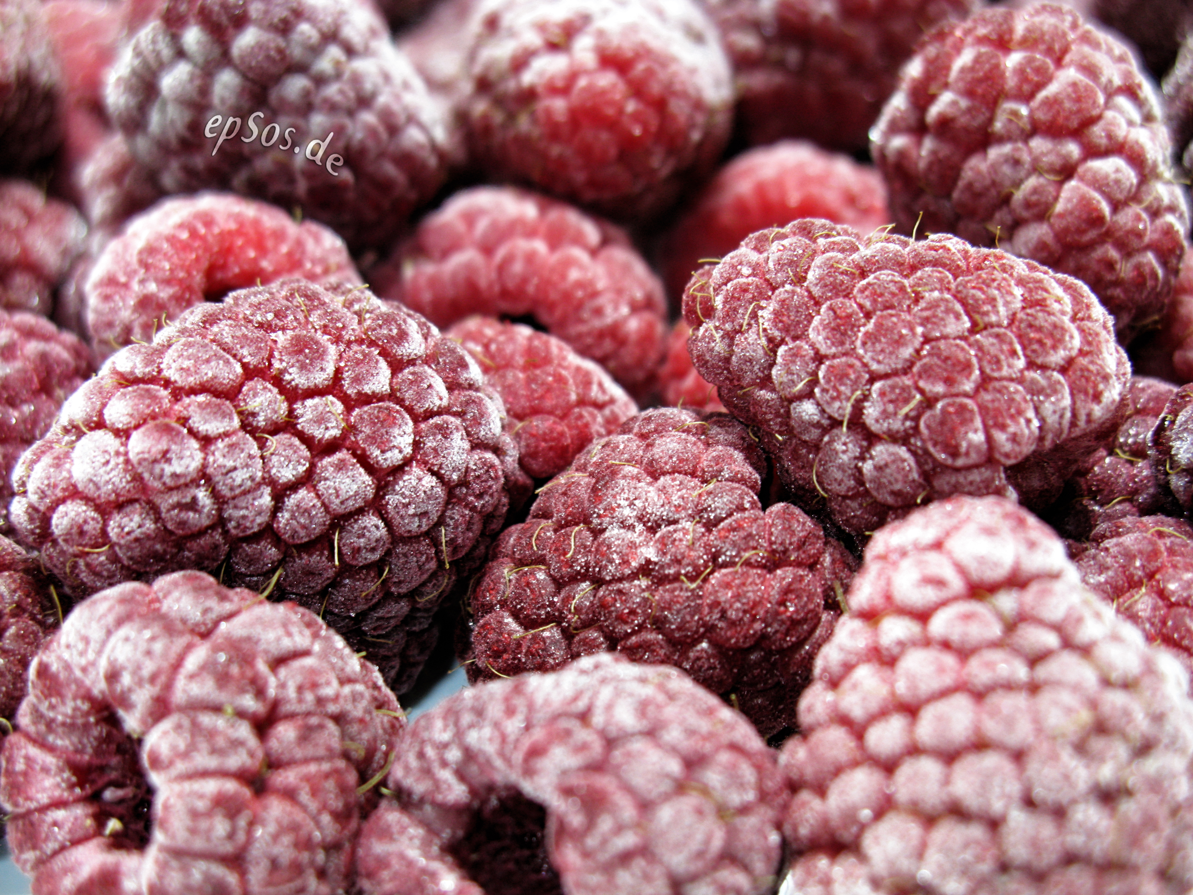 This picture of frozen raspberry fruits is one tasty example of frozen food. The red raspberries contain a lot of iron and vitamins that help the body to stay healthy. This picture was created by my well spoken friend epSos.de and can be used for free, if you link epSos.de as the original author of the image. The icy, frozen frost keeps this raspberry fruits fresh and tasty as long as they stay in the fridge. The ice on this raspberries is very good for making a sorbet, smoothie drinks or cocktails. The cold violet color of this frozen berries changes to a healthy red glow after you warm them in an oven on a cream cake. Thank you for sharing this picture with your friends !